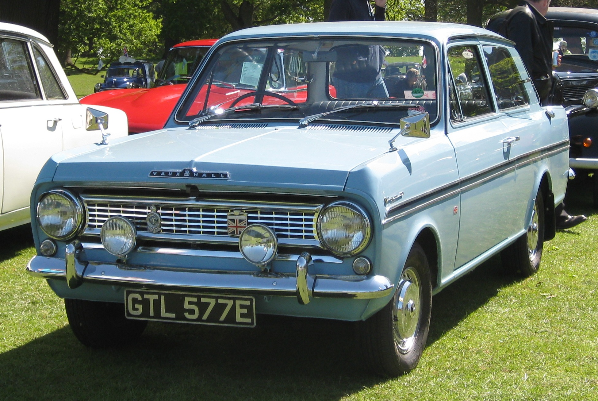 Vauxhall Viva HA with a front that identifies it as an upmarket SL or 90 variant